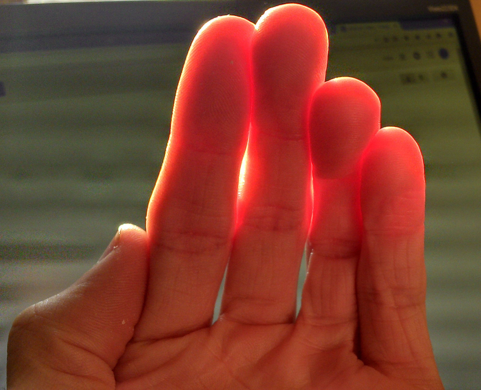 Example of Subsurface Scattering of light in a real world photograph